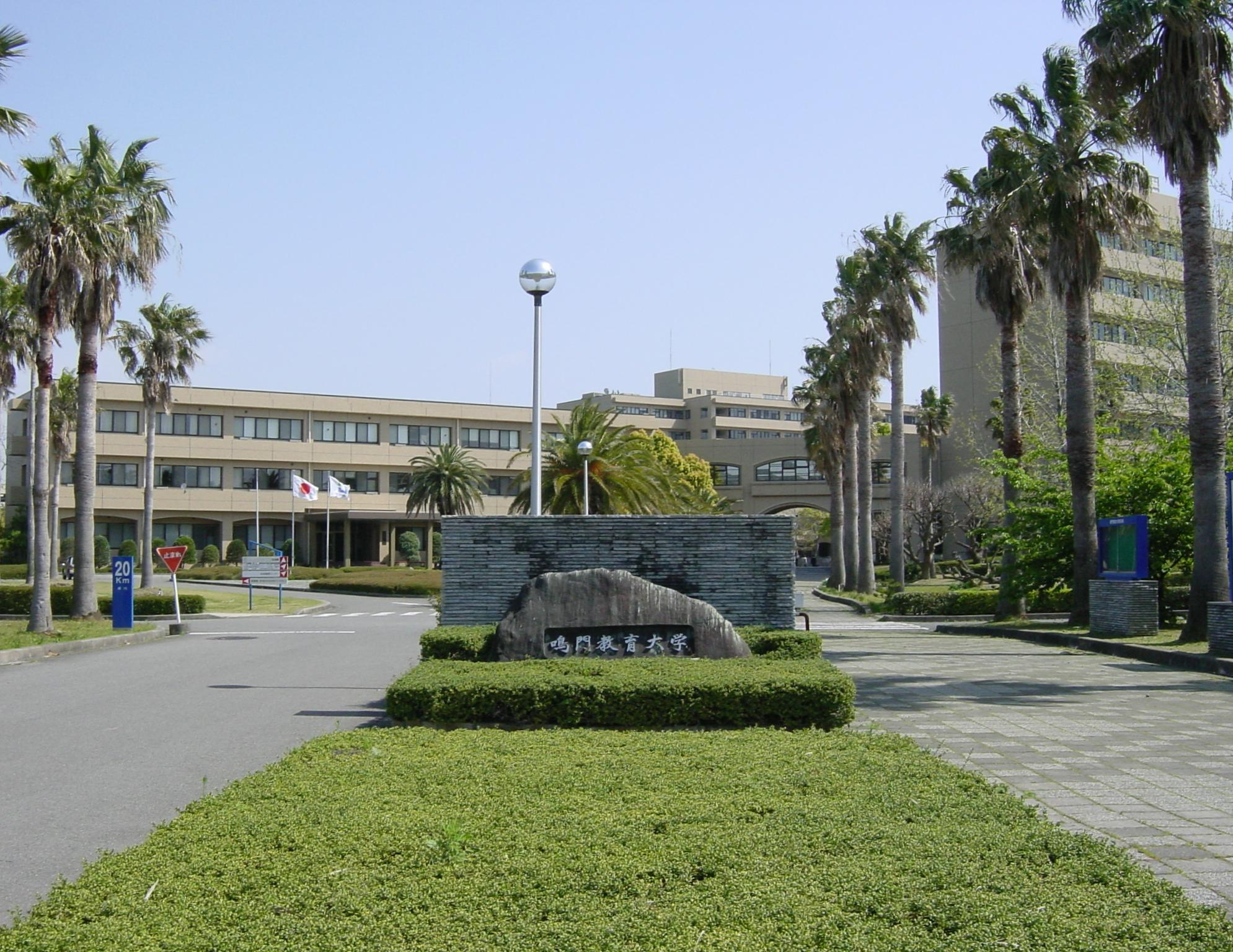 Naruto University of Education (鳴門教育大学, Naruto kyōiku daigaku?) is one of several national universities of education in Japan.